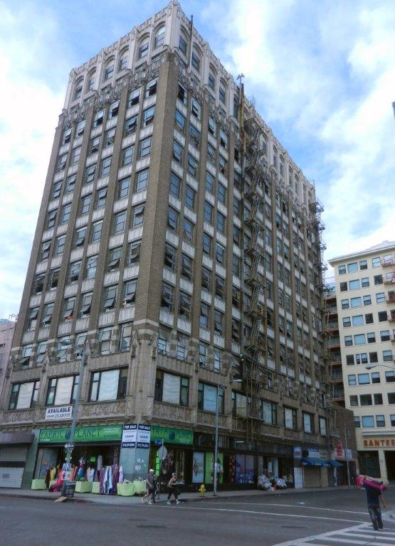 The Garment Capitol Building| - photo by Jodi Summers